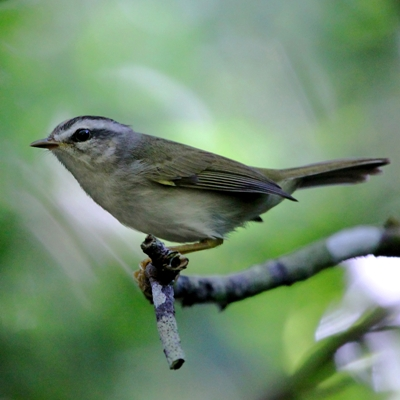 White-bellied Warbler at Bonito - MS - Brazil